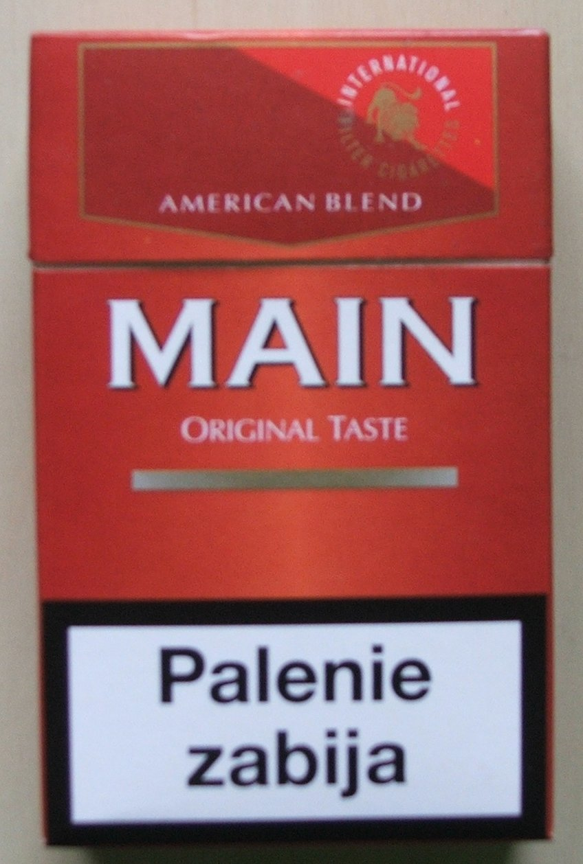 Main cigaretes package (polish)